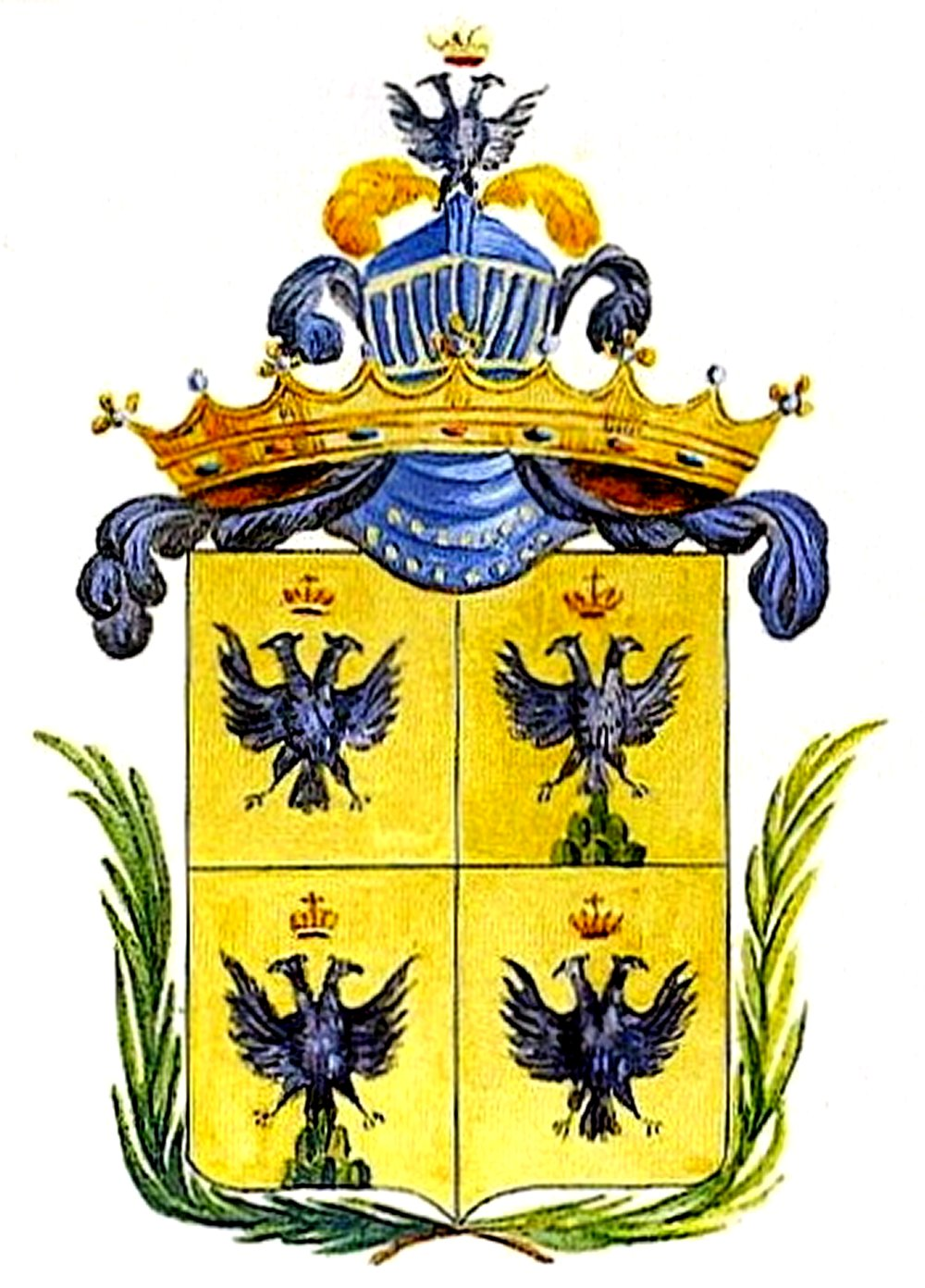 Coat of arms of the Montecuccoli noble family from northern Italy.